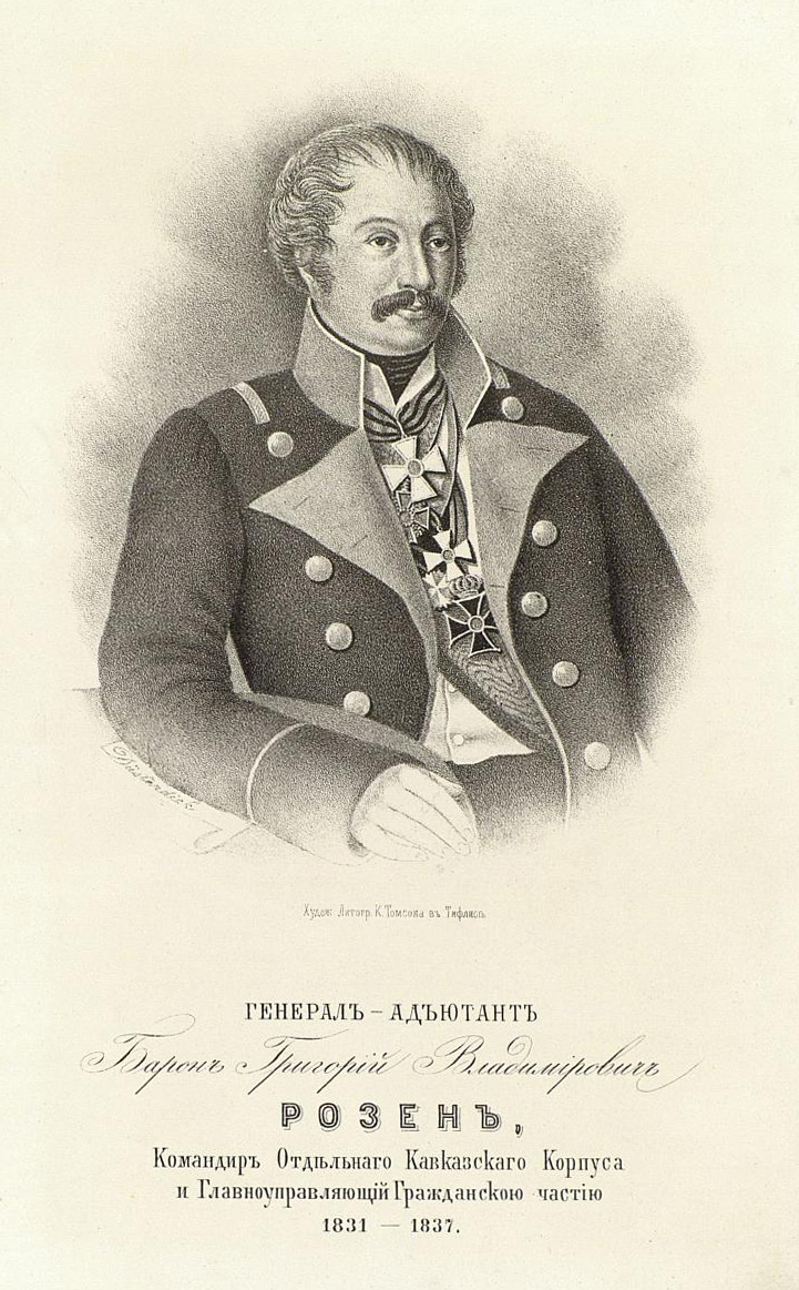 Grigory Rozen